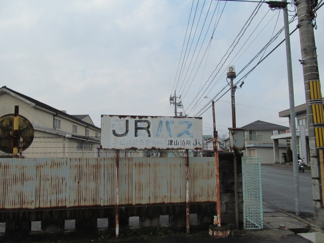 Nishinihon jr bus tsuyama hakusyo２